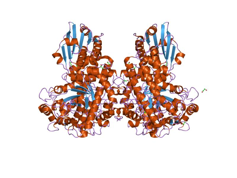 Cartoon representation of the molecular structure of protein registered with 1gqi code.